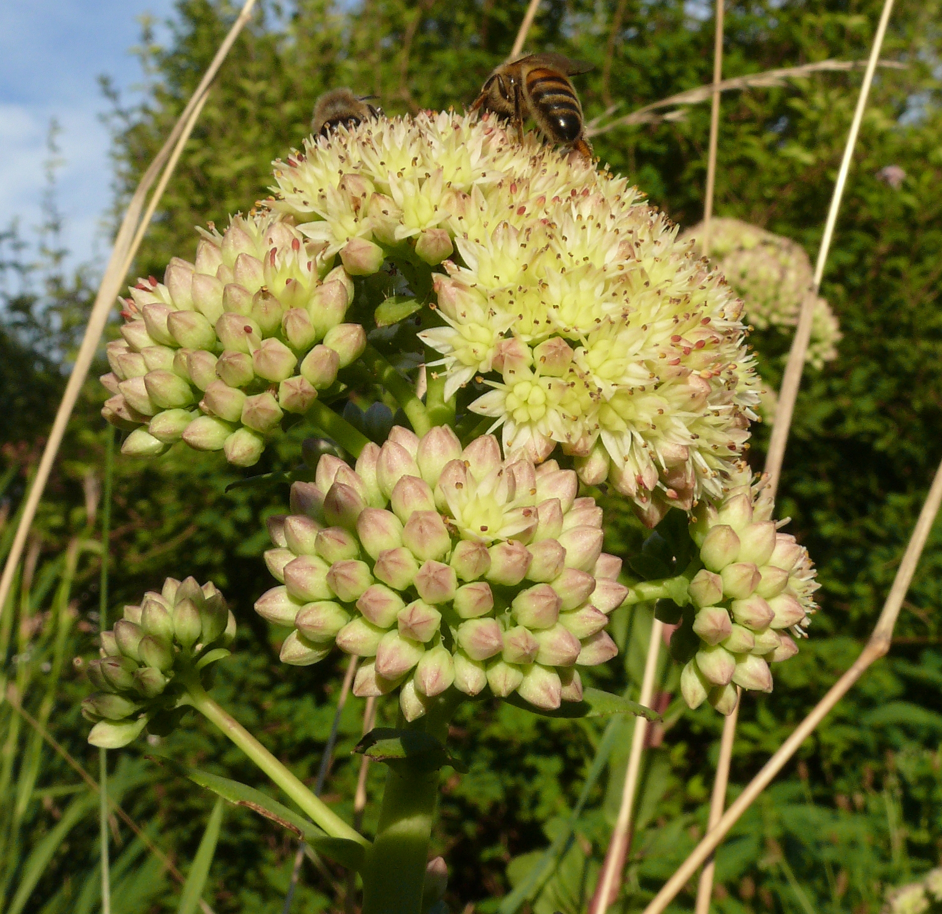 Sedum (Hylotelephium) telephium subsp. maximum, Hohenlohe, Germany